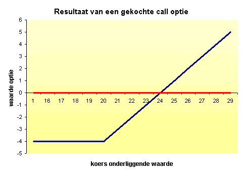 Chart of the value of a call option vs the price of the underlying security.